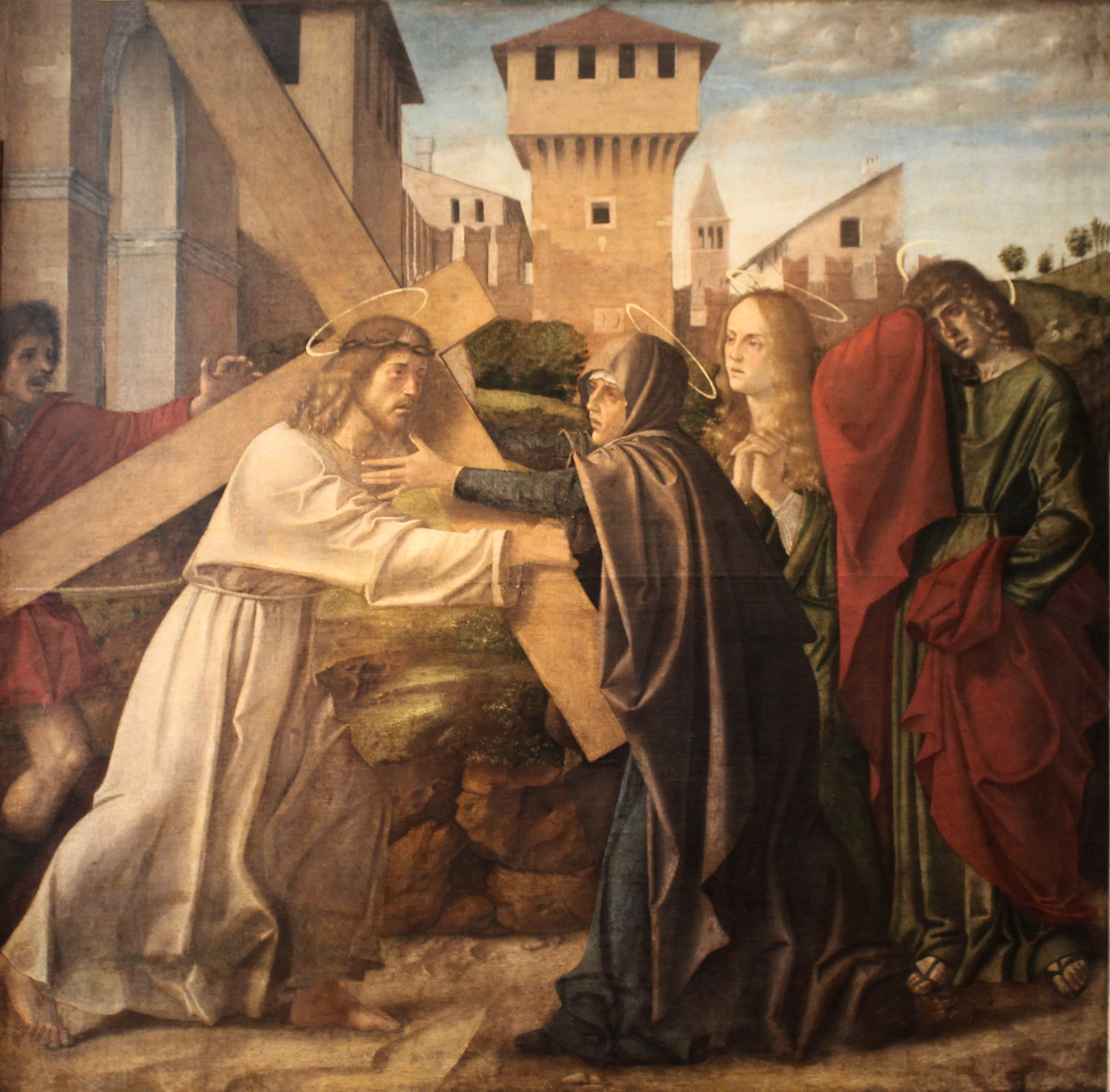 Güstrow, castle museum, Bartolomeo Montagna, Christ carrying the cross